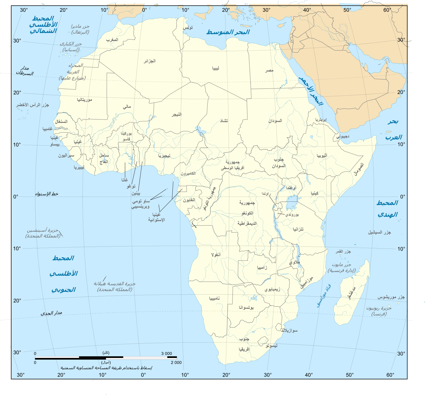 خارطة لقارّة أفريقيا كما كانت بتاريخ 2011-07.